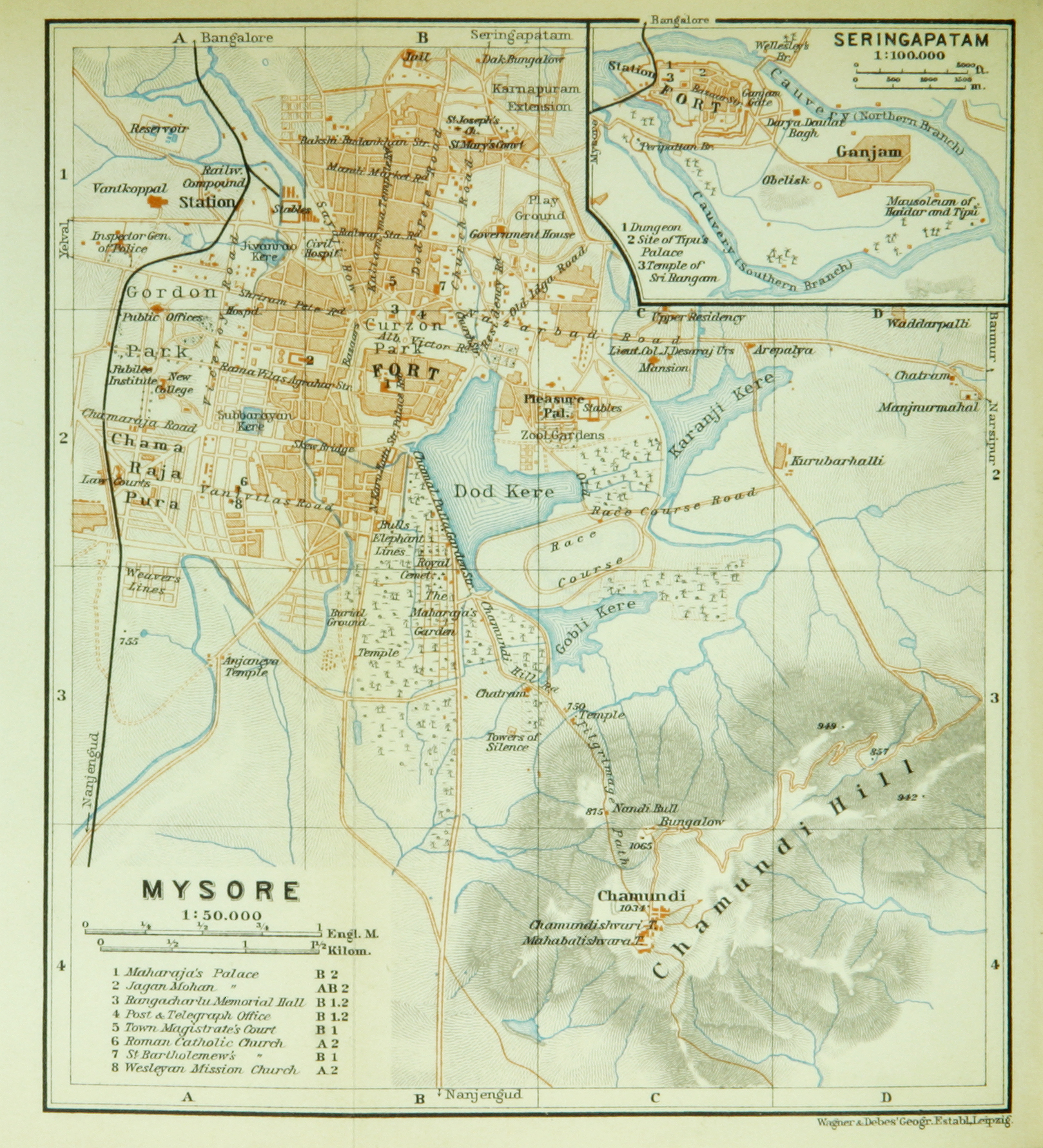 Map of the city of Mysore (1:50,000), ca 1914, incl. a smaller, inserted map of Srirangapatna (1:100,000). Labelled in English.